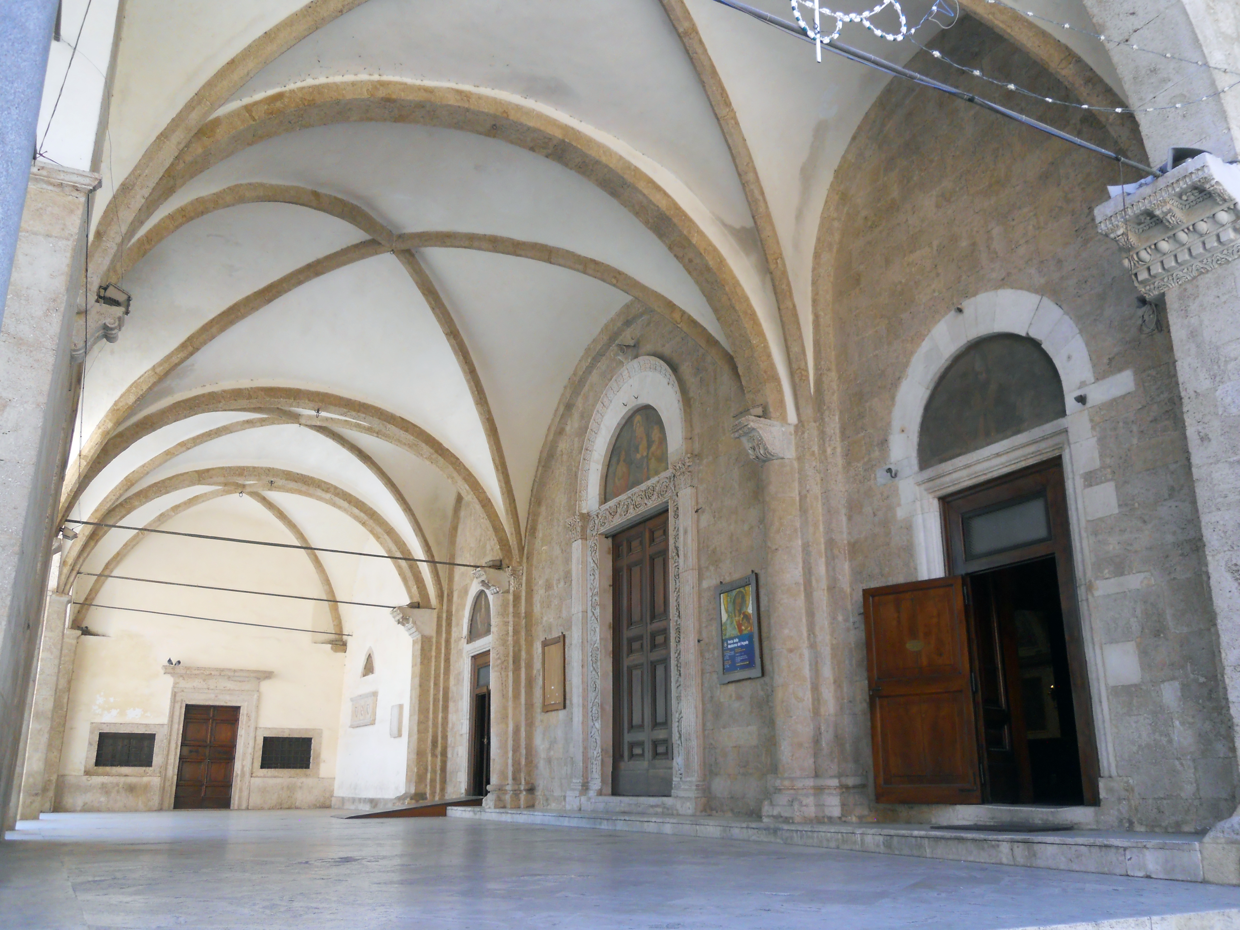 Portico - Cathedral of Rieti, Italy